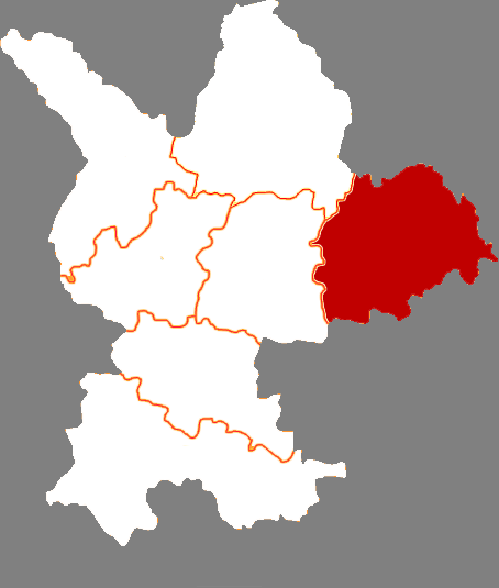 Location of Tongwei county in Dingxi city, China